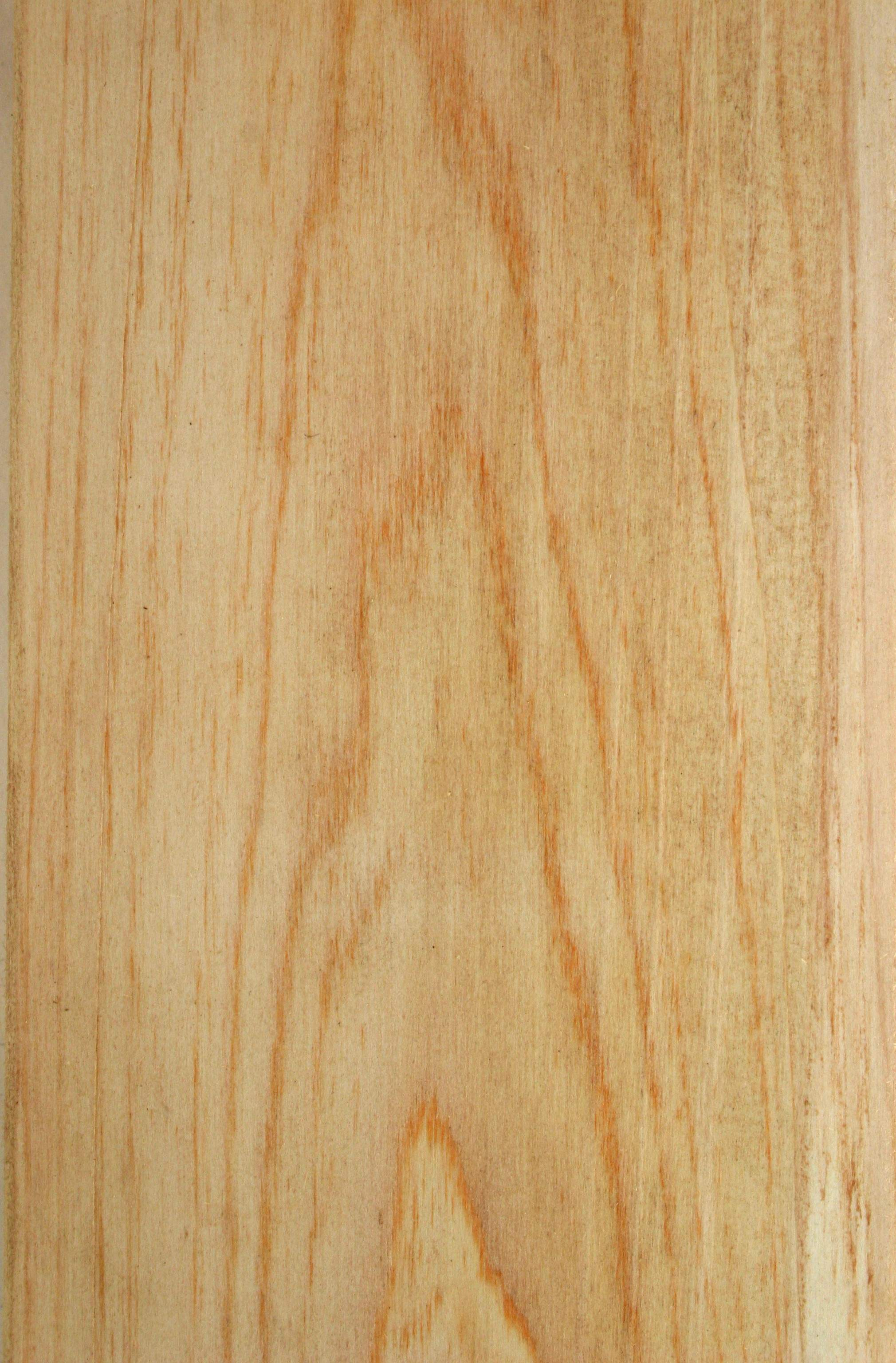 Taxodium distichum timber from tree cultivated in Johannesburg, South Africa